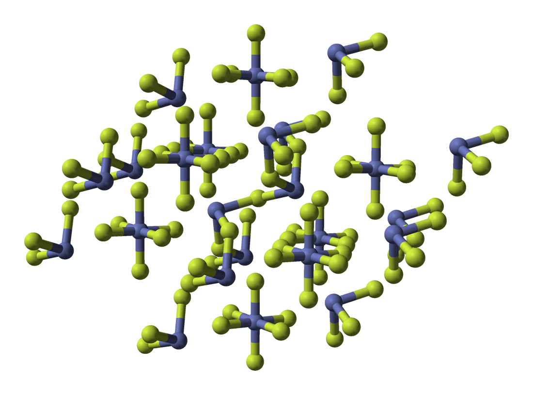 Ball-and-stick model of part of the crystal structure of cobalt(III) fluoride, CoF3